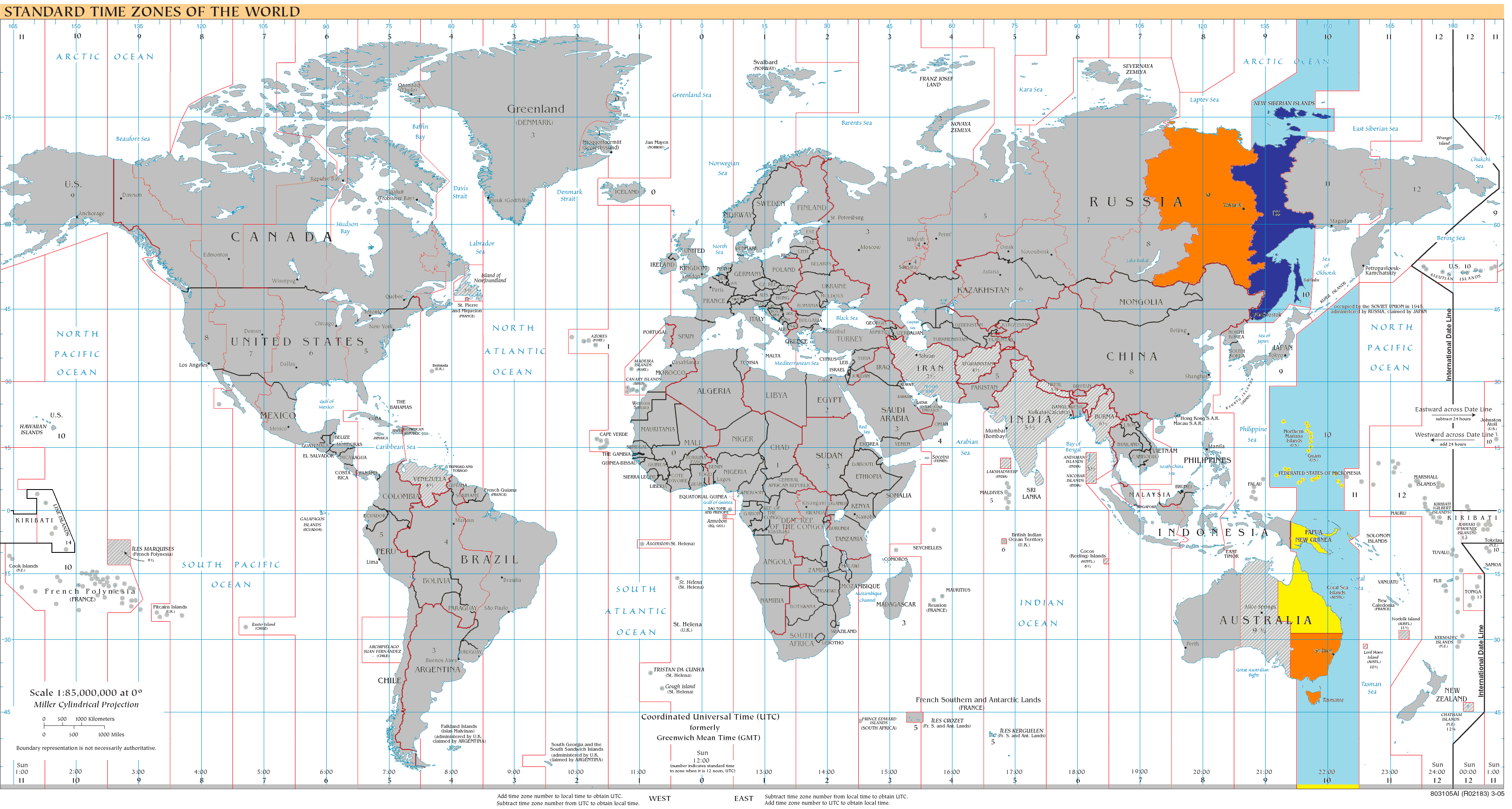 World map of time zones as of 2008, on the Miller Cylindrical Projection and with highlighted UTC+10 zone.